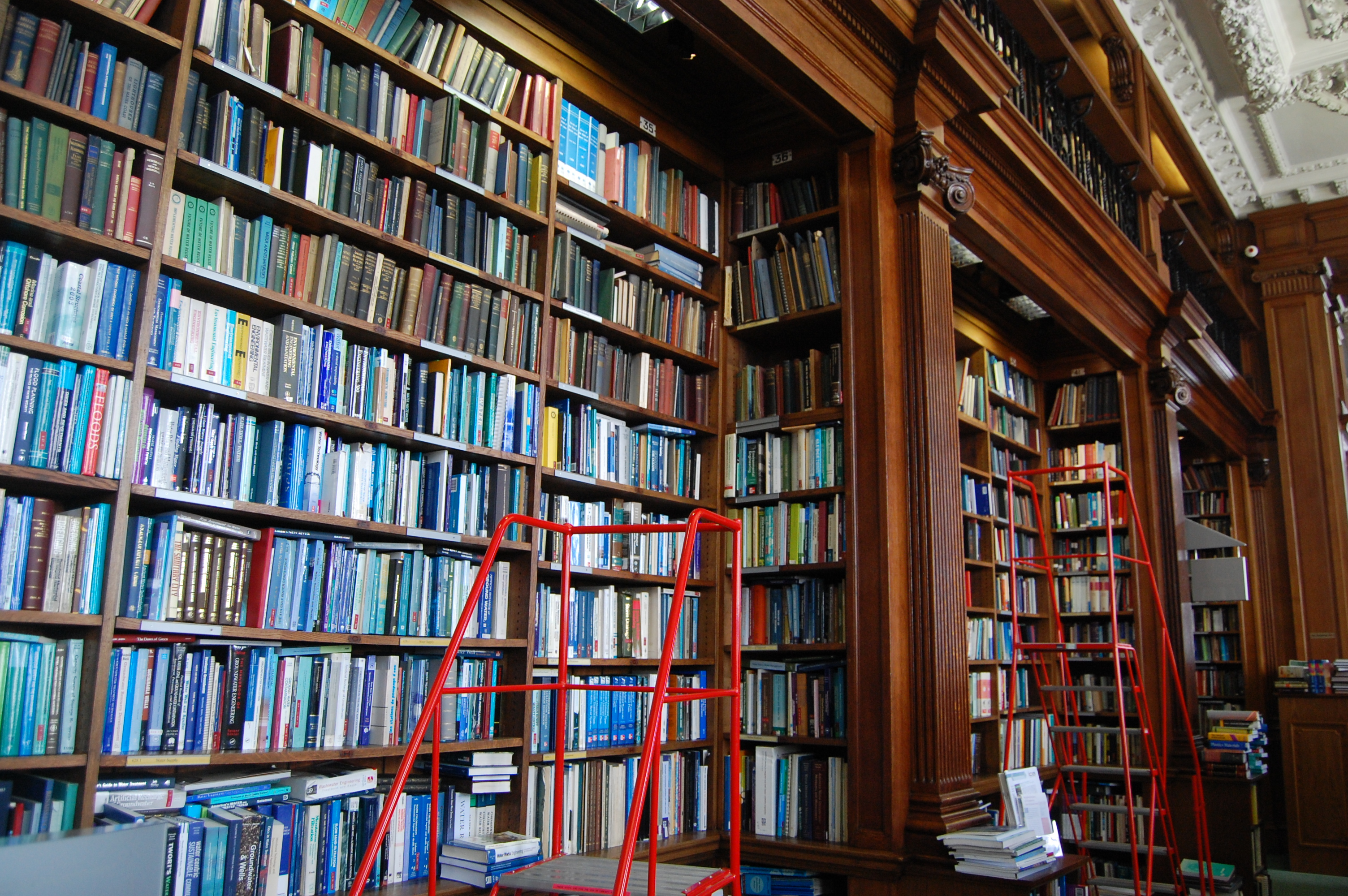 The library at the Institution of Civil Engineers' headquarters, One Great George Street, London.